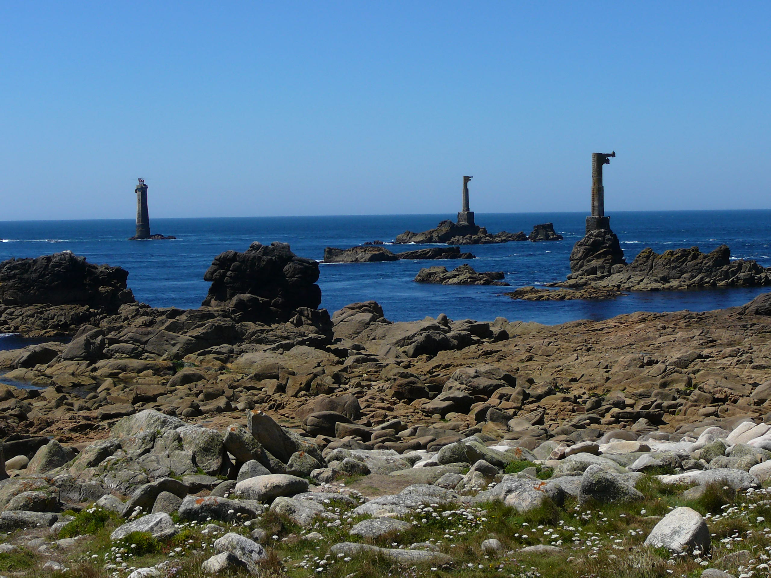 Nividic lighthouse